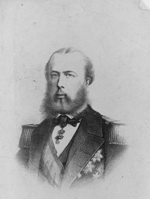 Photograph shows head-and-shoulders portrait of Maximilian, Emperor of Mexico, facing left, after an engraving by Metzmacher.